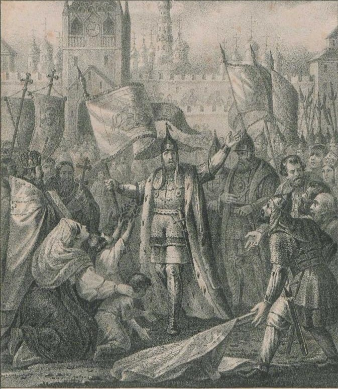 Grand Duke Pozharsky – the Liberator of Moscow